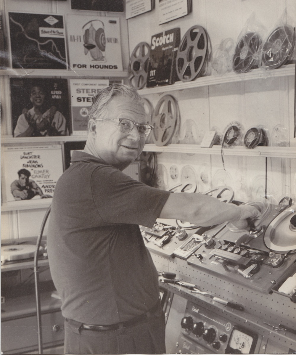 (Nathan) Van Cleave, American composer, orchestrator, and arranger for film, television, and radio. Image c. 1960s.